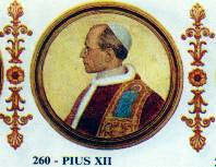 Portrait of Pope Pius XII in the Basilica of Saint Paul Outside the Walls, Rome